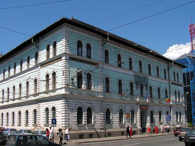 The Central Post Office in Cluj-Napoca